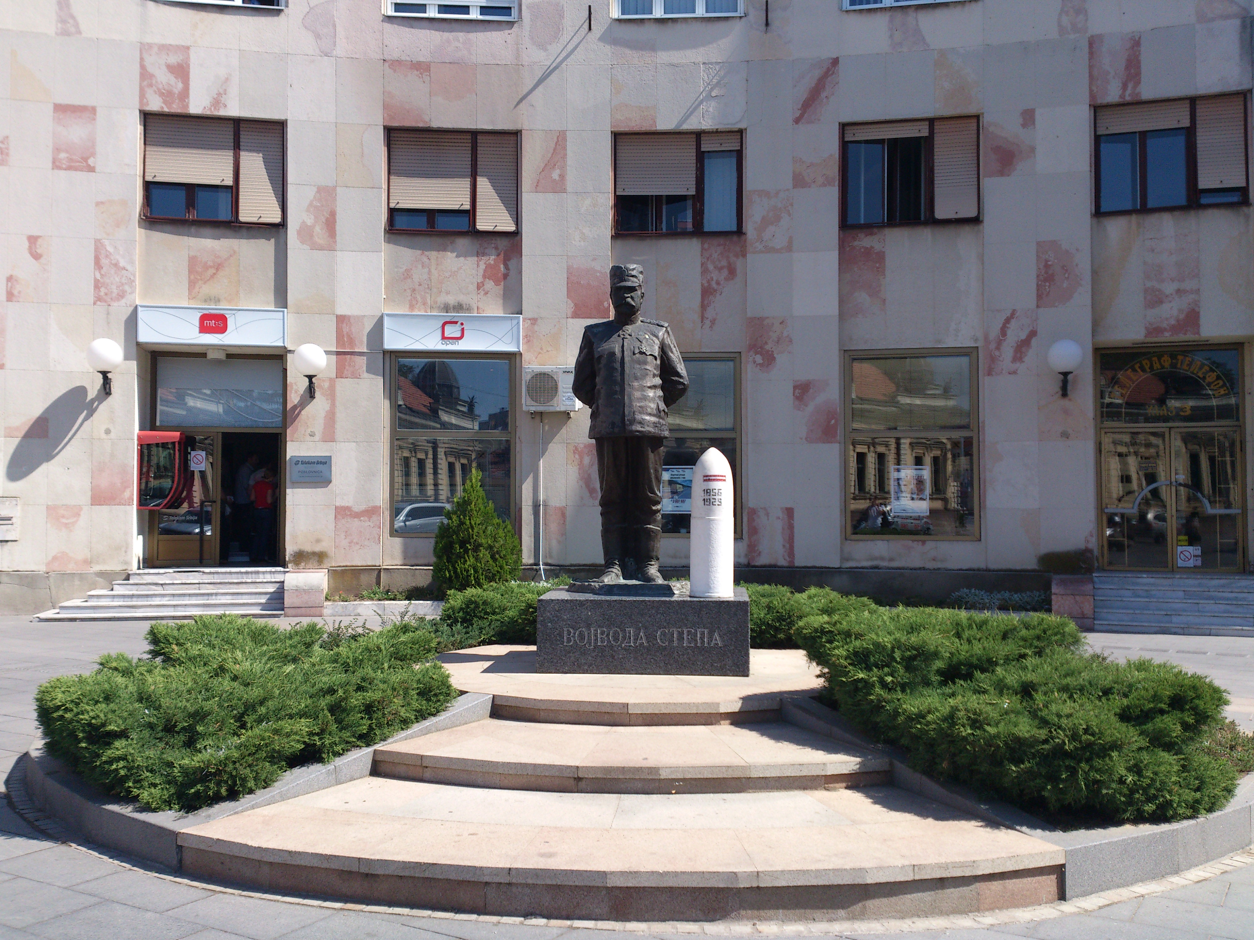 Stepa Stepanović monument in Čačak.